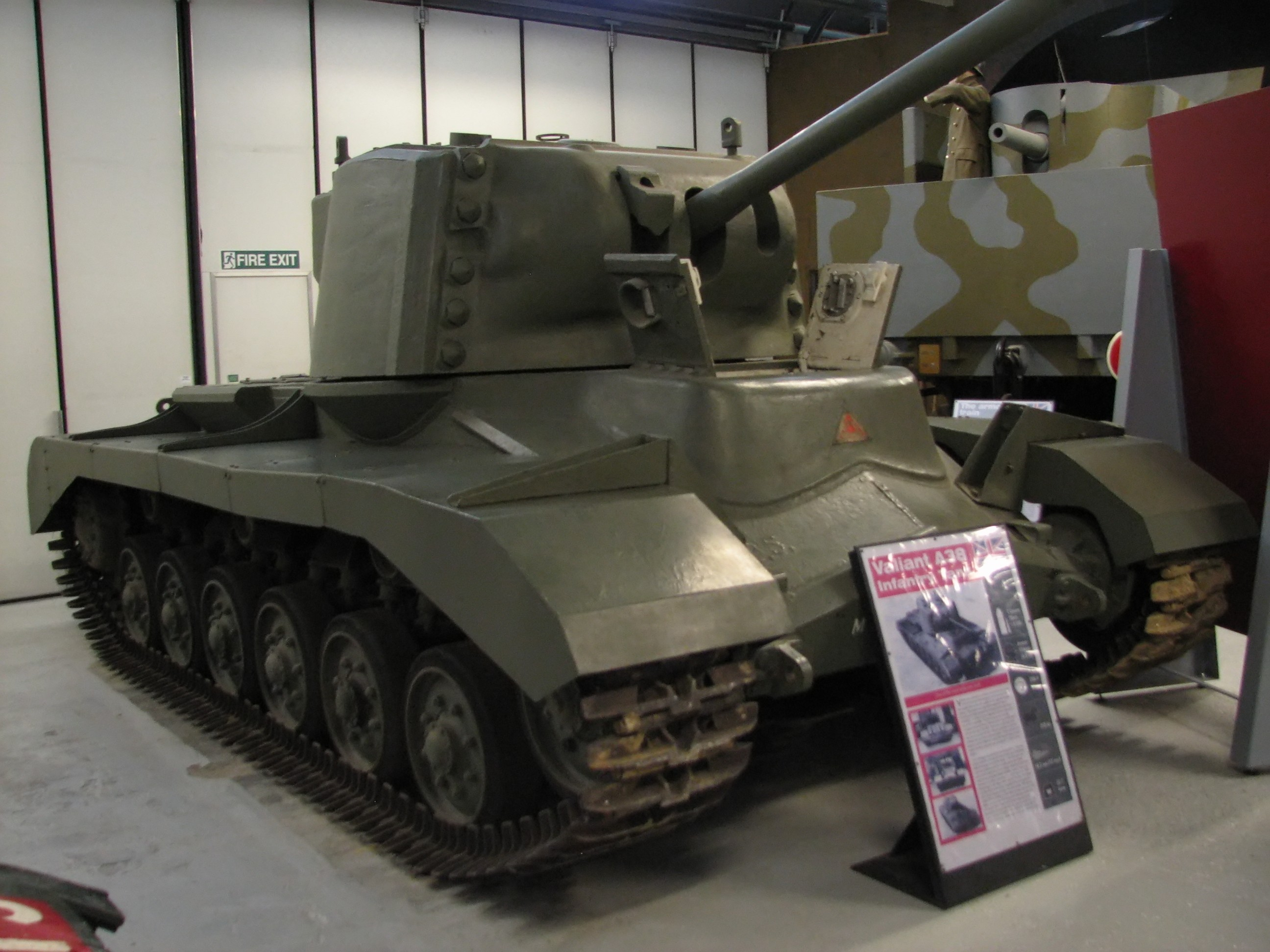 British Valiant tank at Bovington Tank Museum